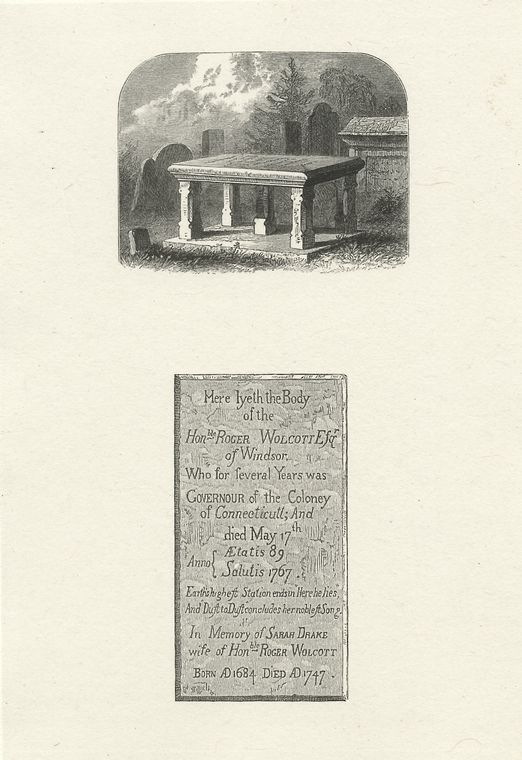 Drawing of the tombstone of Roger Wolcott and wife Sarah (Drake) Wolcott, with memorial, Windsor, Connecticut. Courtesy of the New York Public Library Digital Collection.